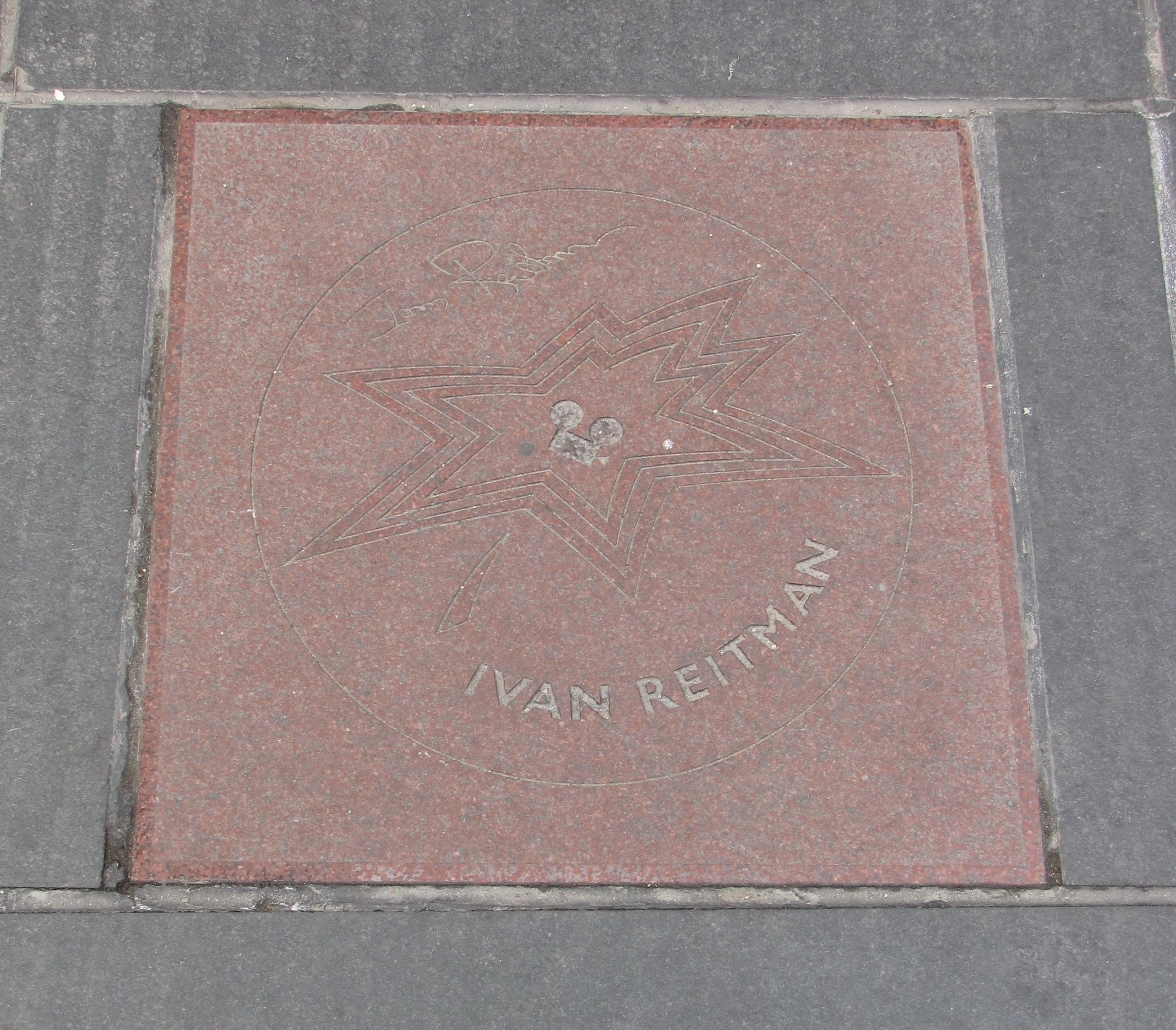 Ivan Reitman's star on Canada's Walk of Fame